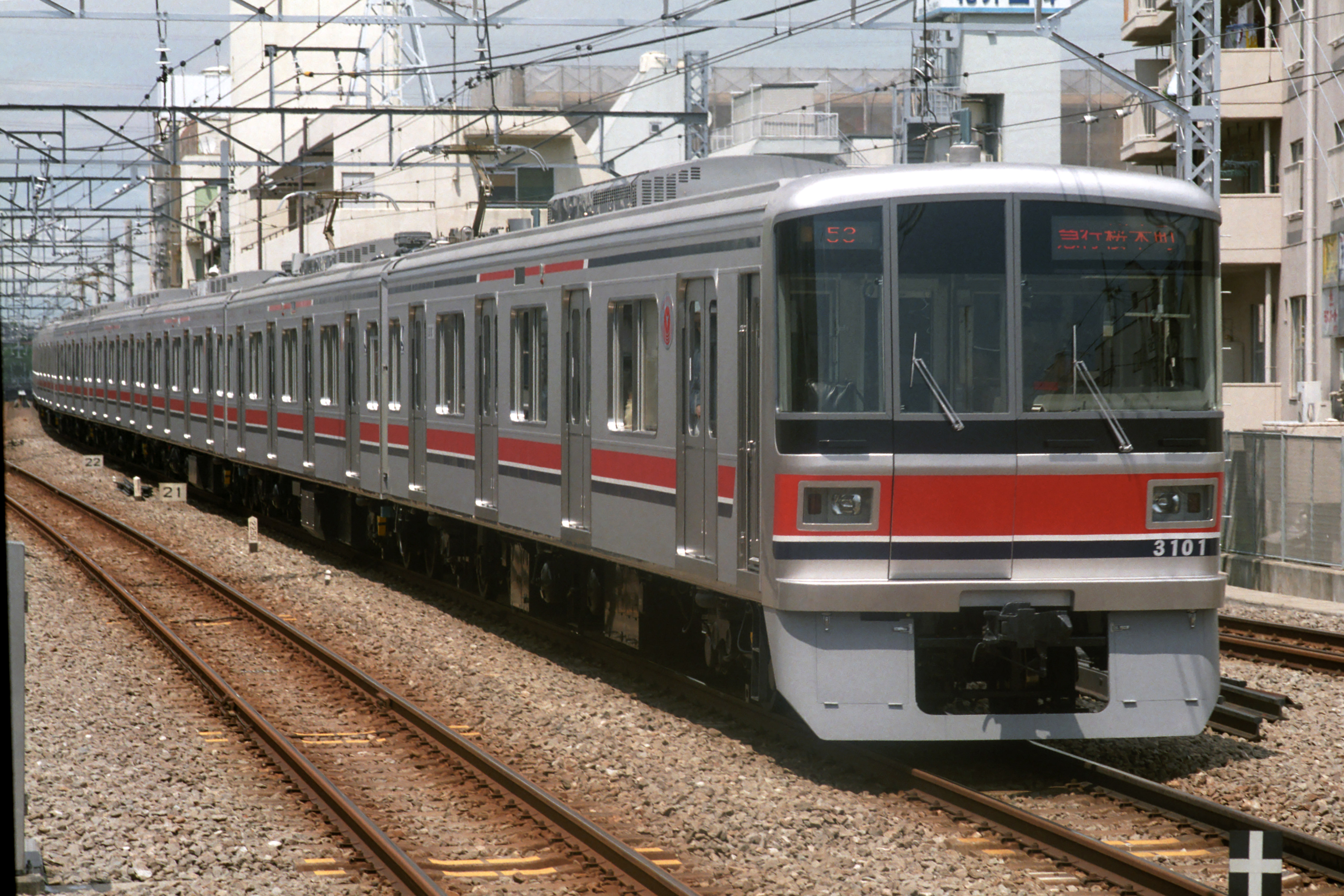 Tokyu 3000 series EMU set 3001 in original eight-car formation approaching Kikuna Station on the Tokyu Toyoko Line